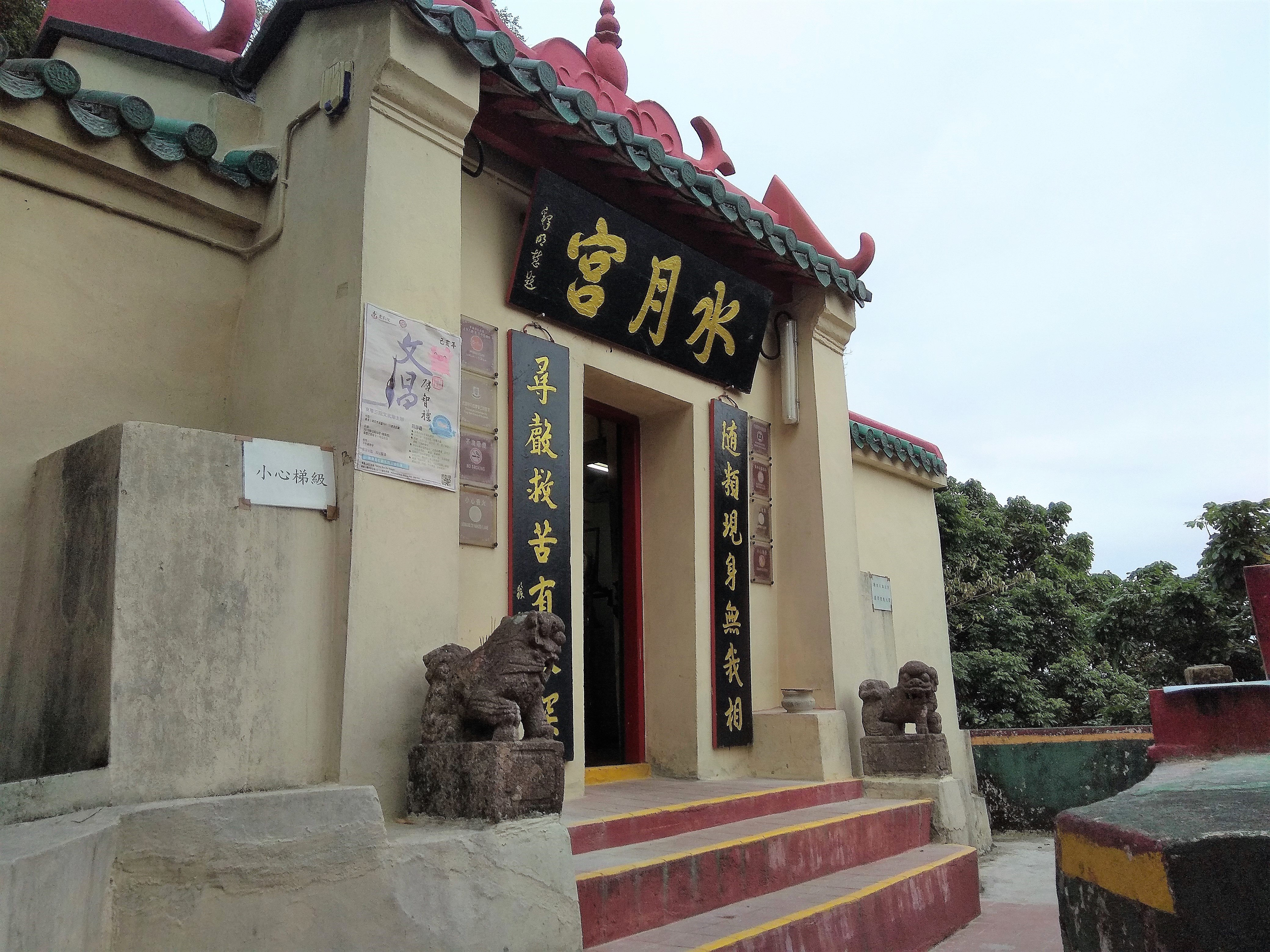 Kwun Yum Temple, Tsz Wan Shan